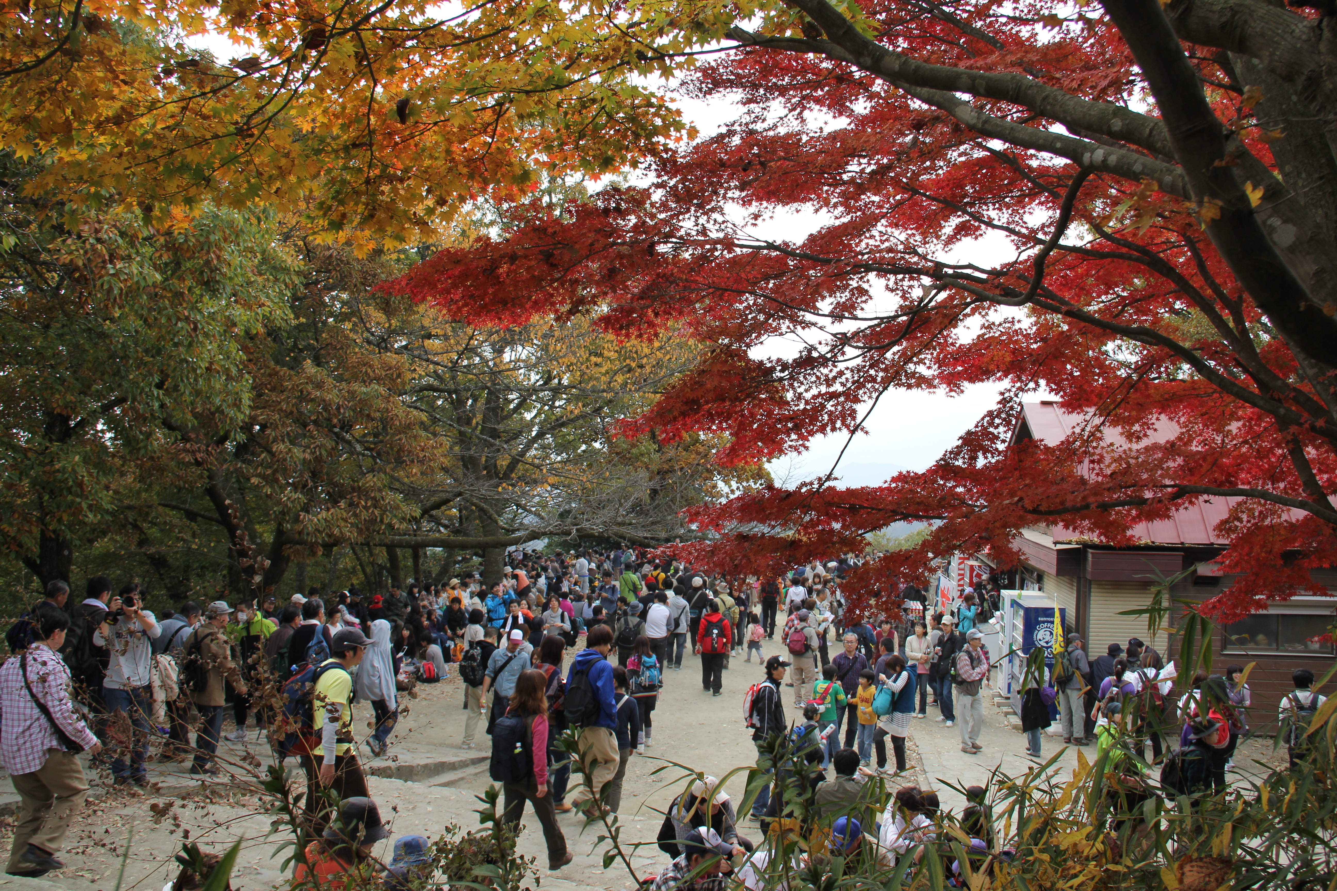 Takao-san-Top